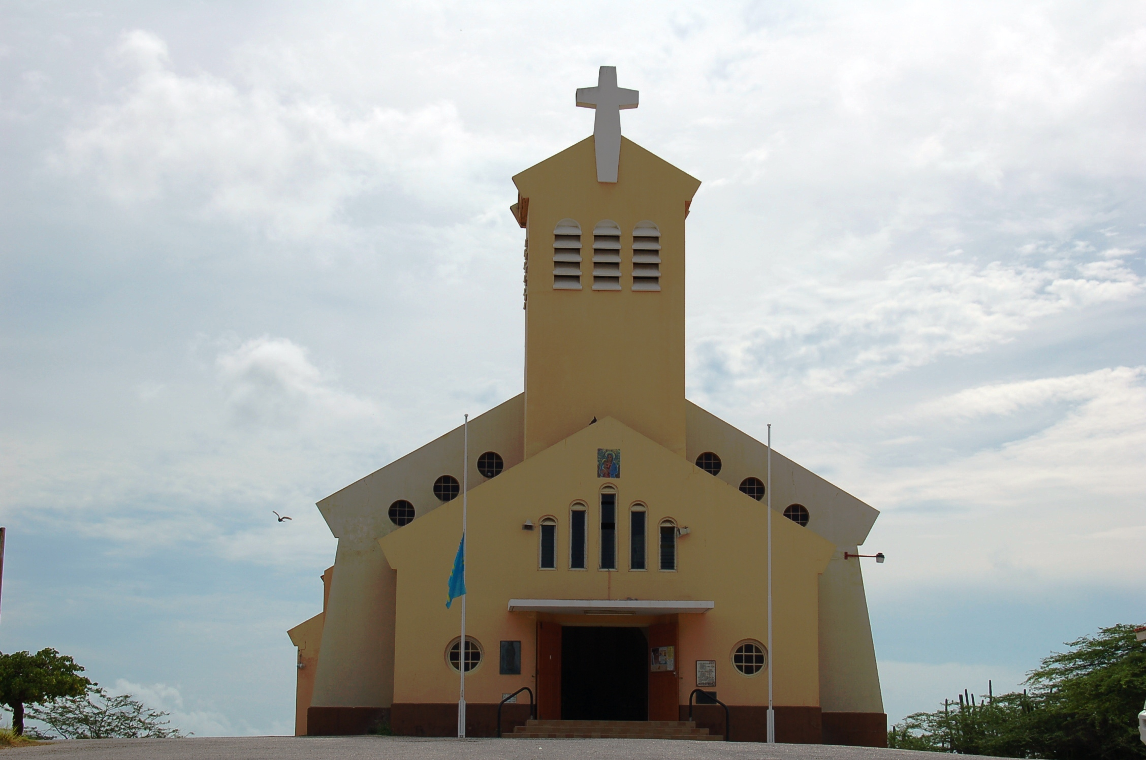 Filomenakerk, Plaza Louis Eusabio Kraanwinkel, Paradera Aruba